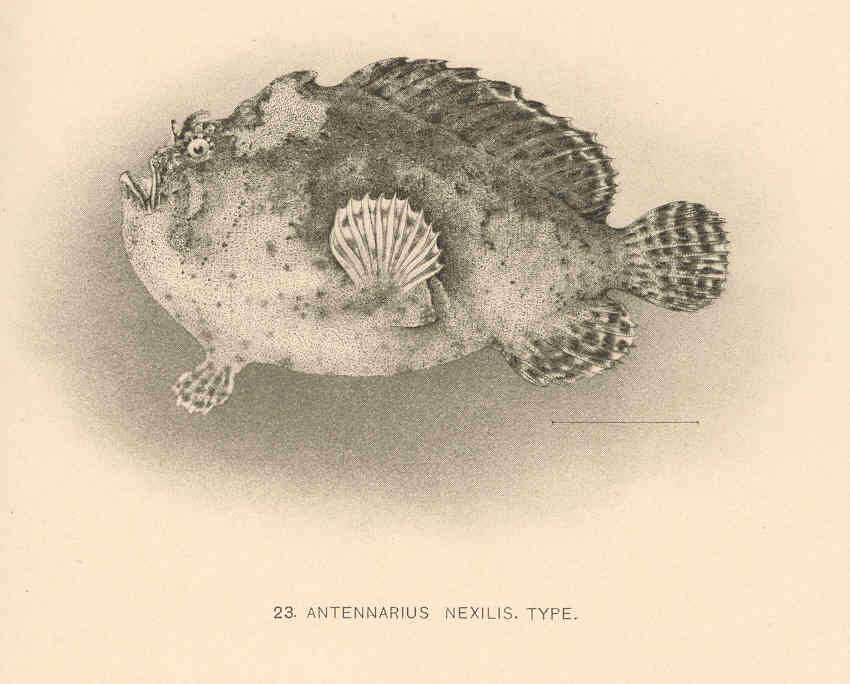 Antennarius nexilis. Type Subject: Antennarius Tag: Fish